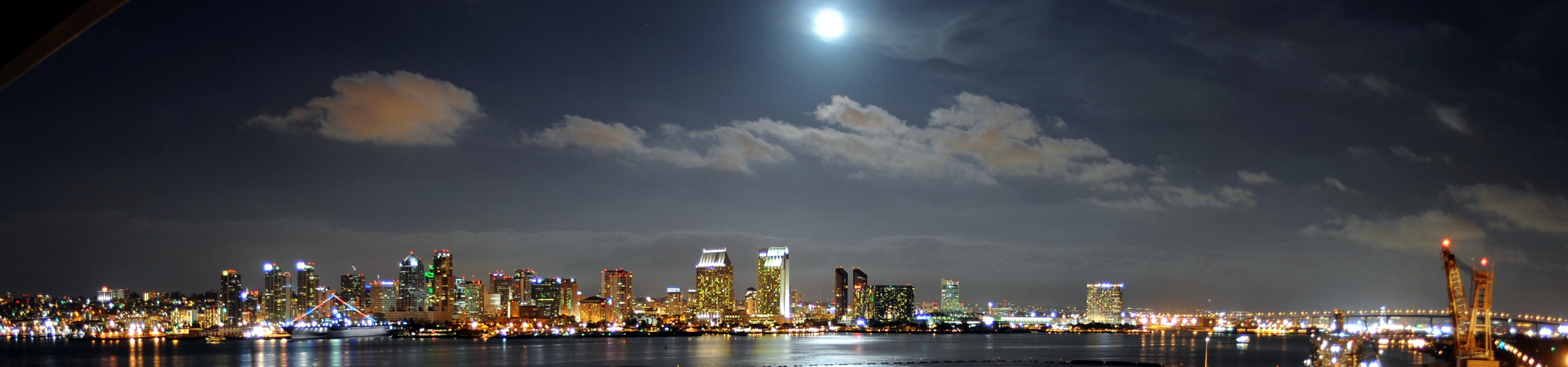 San Diego panorama from North Island with downtown skyline and Coronado Bridge pictured